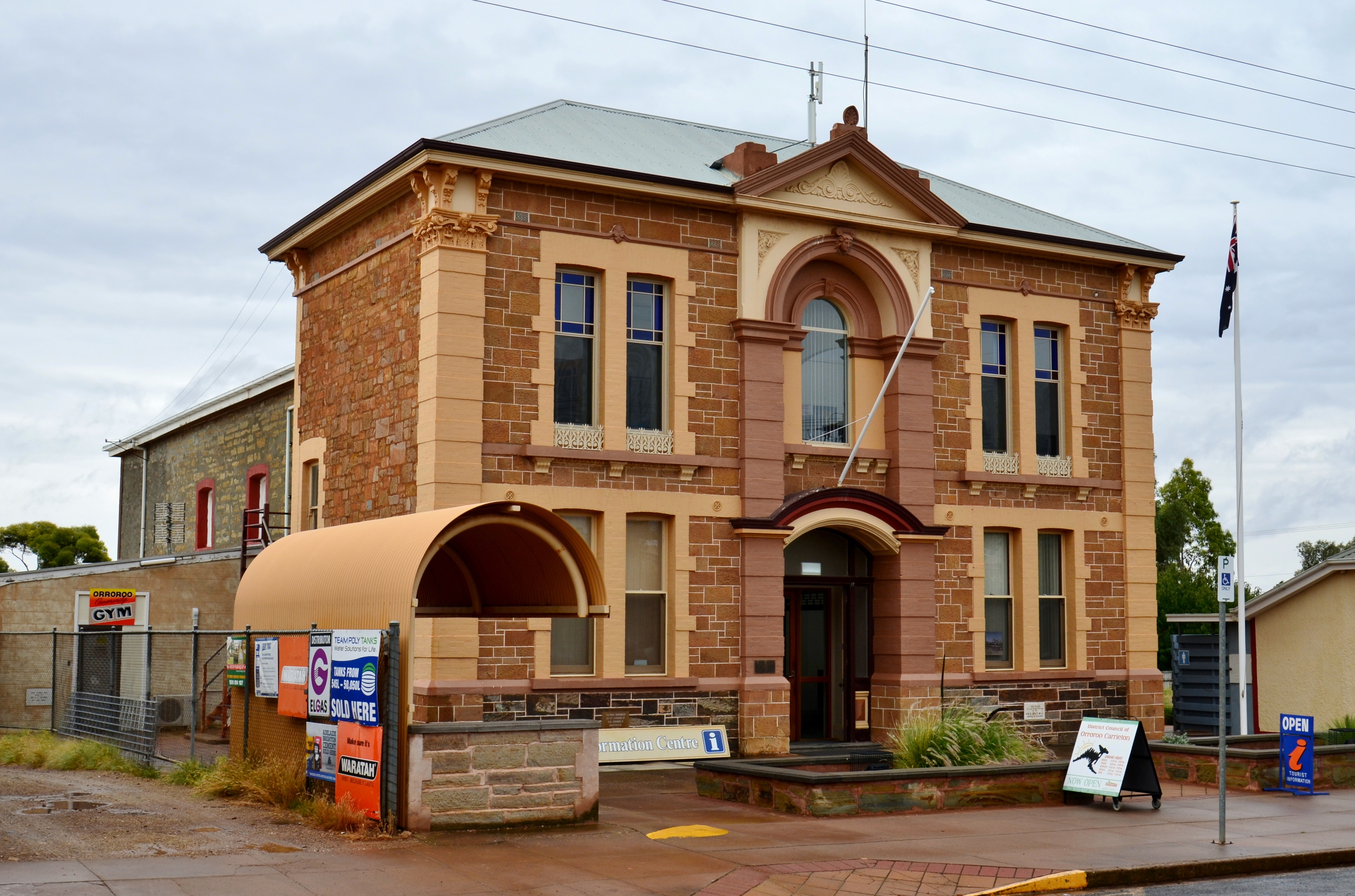 View of the District Council of Orroroo Carrieton office in Second Street, Orroroo, South Australia